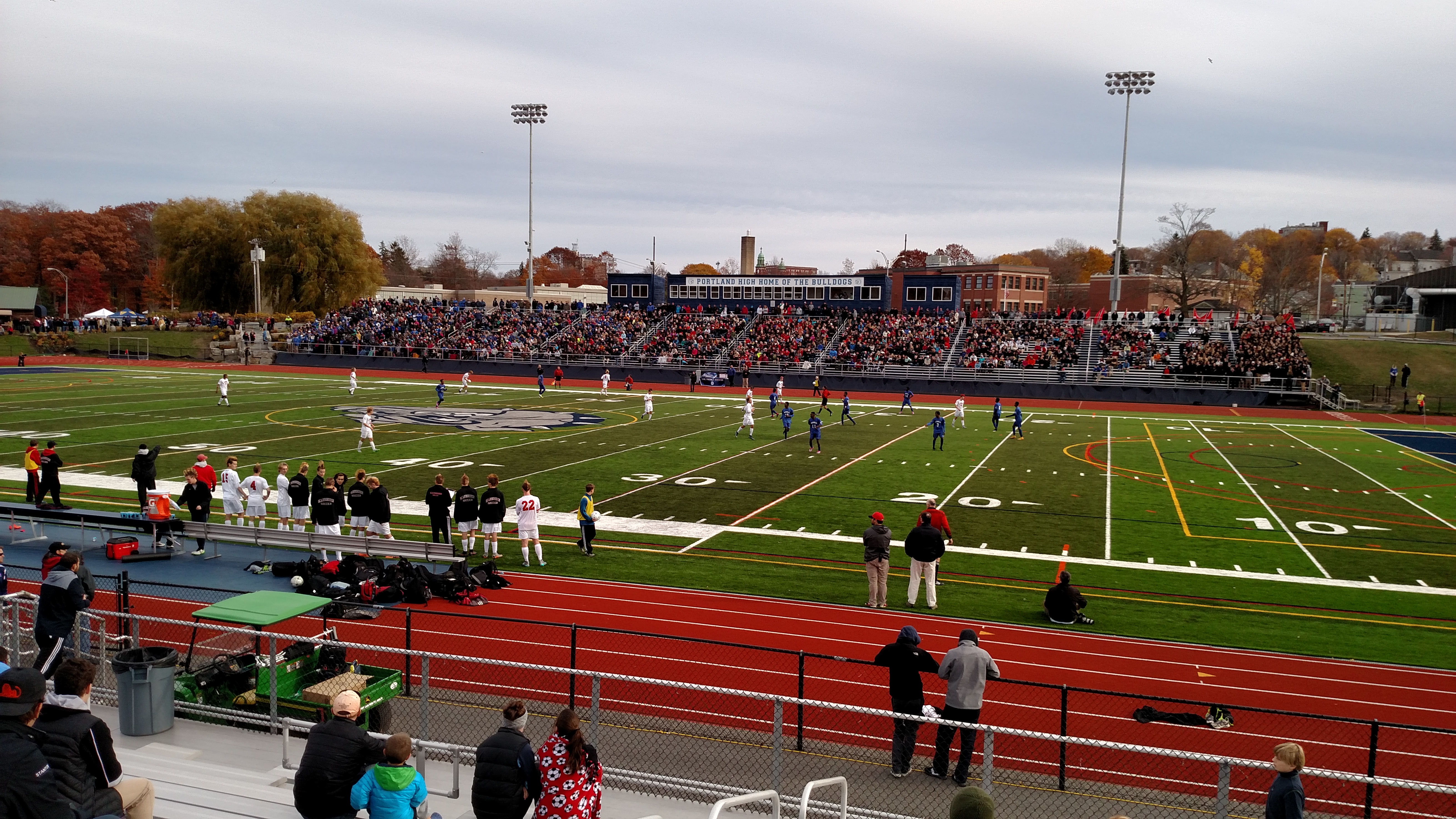 2015 Class A State Championship Soccer Game